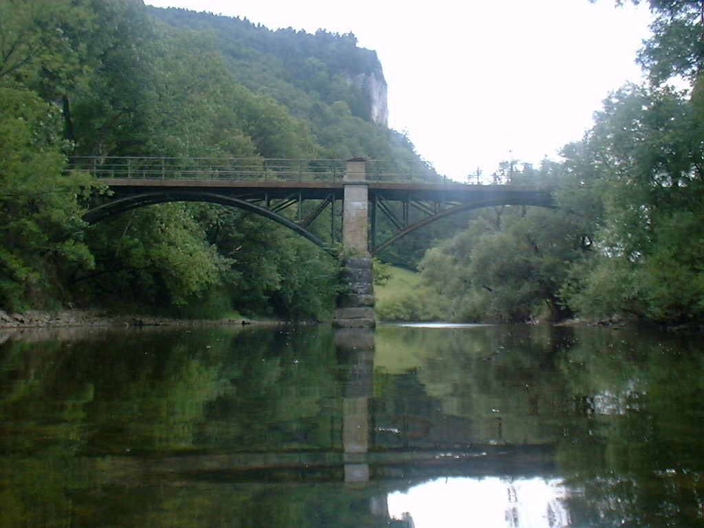 Old bridge over the danube near Langenbrunn.